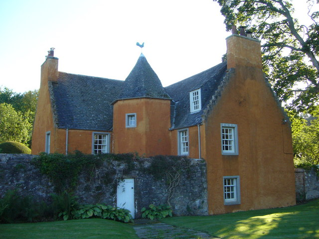 Ford House 17thC house in the village of Ford.